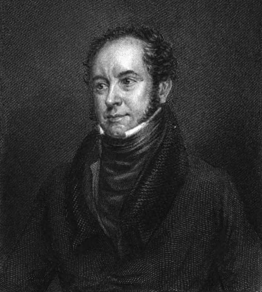 English author Theodore Hook.